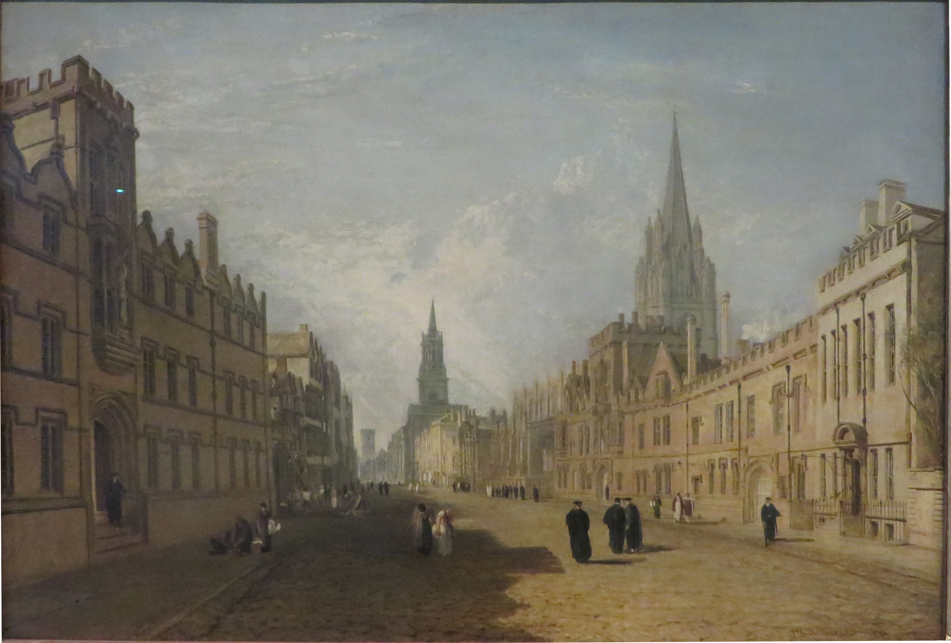 Rectified, cropped version of File:High Street, Oxford (painting), by Turner (1810).JPG